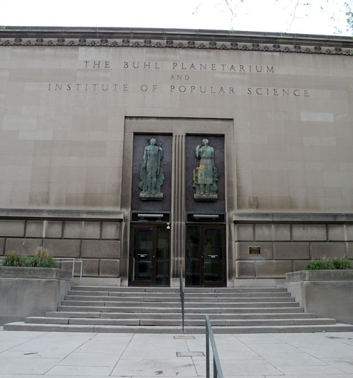 Picture of the Buhl Planetarium and Institute of Popular Science Building located at 10 Children's Way in the Allegheny Center neighborhood of Pittsburgh, Pennsylvania, on April 11, 2010. Built in 1939, architects Ingham & Boyd, the building is now part of the Children's Museum of Pittsburgh. The former planetarium is on the List of Pittsburgh Landmarks recognized by the Pittsburgh History and Landmarks Foundation (PHLF).